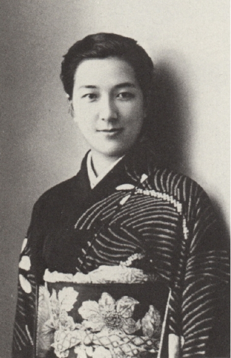 Japanese poetess, Ibaragi, Noriko (1926-2006)